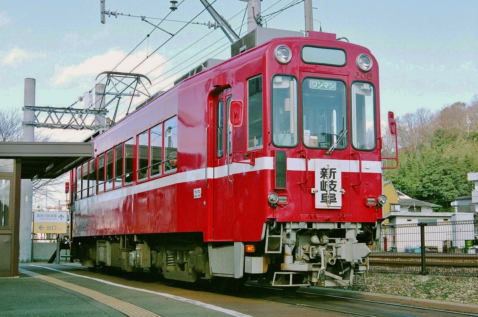 Nagoya Railroad Type Mo-606 Tram(Japan). Tram operated in great Nagoya-Railroad Minomati-line(It is being abolished now (Japan).